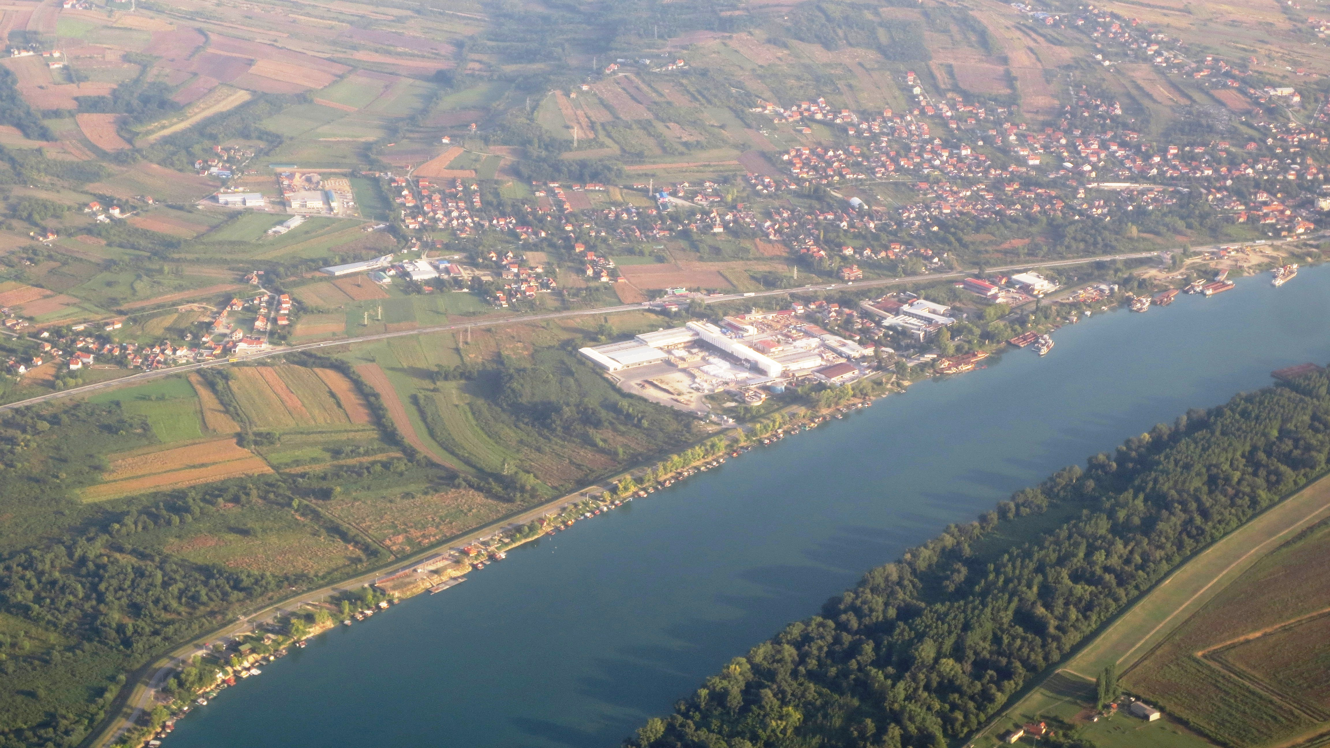 Sava River by Umka, in the Čukarica municipality, eastern Beograd, Serbia